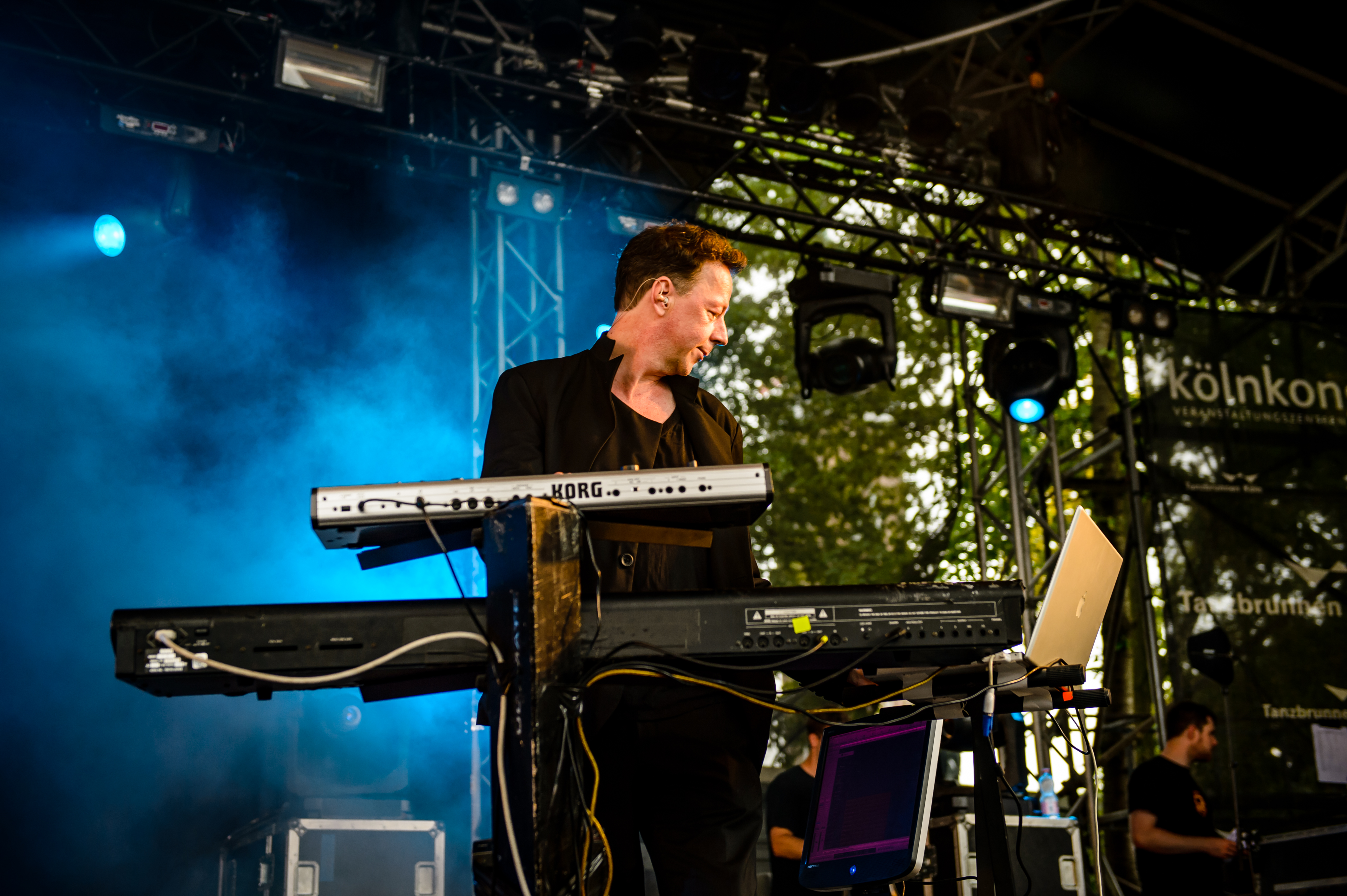 Peter Heppner; Amphi festival 2016